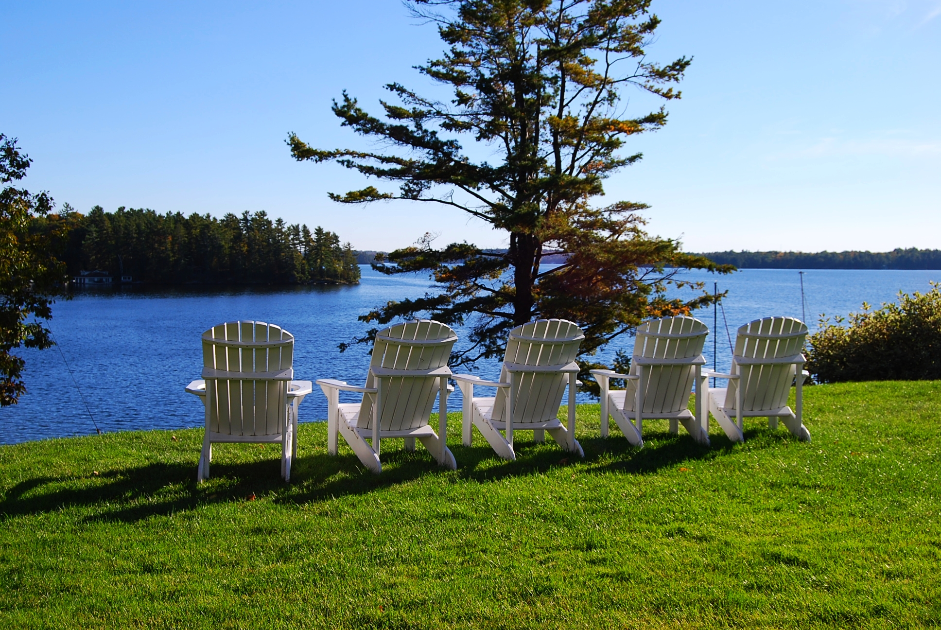 Adirondack chairs located on front lawn of Windermere Hotel